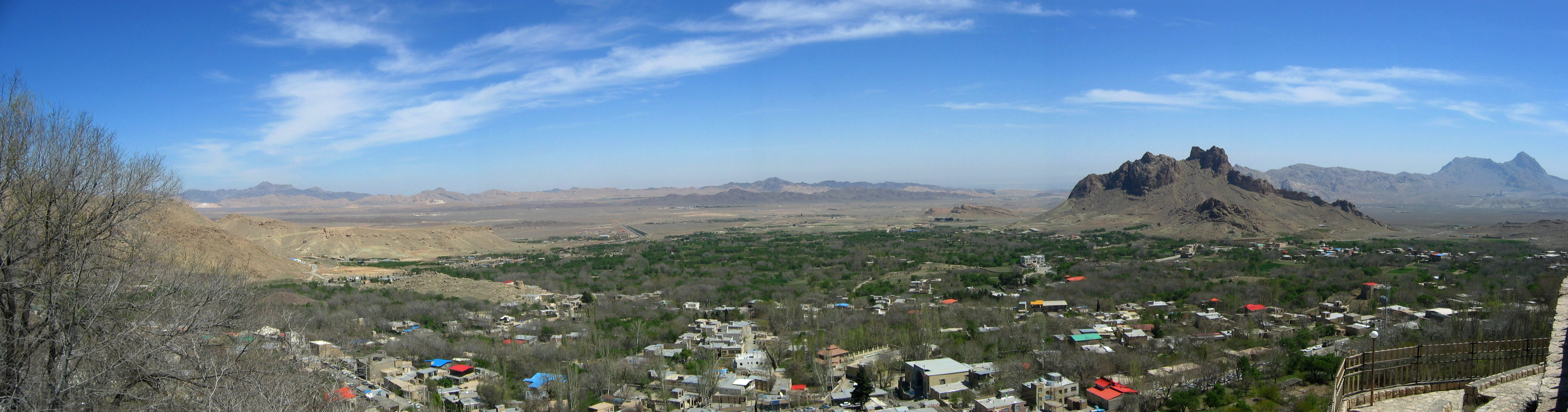 Perspective on the Neyasar, Kashan County